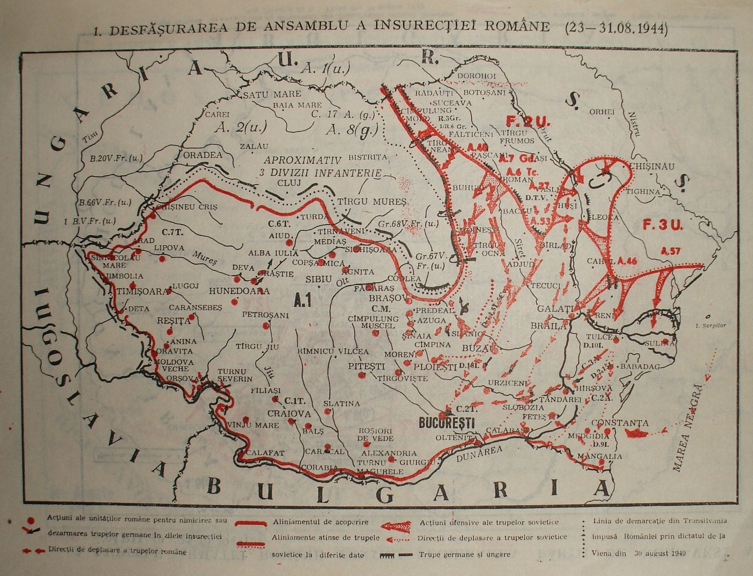 Deployment of troops at 23rd August 1944.